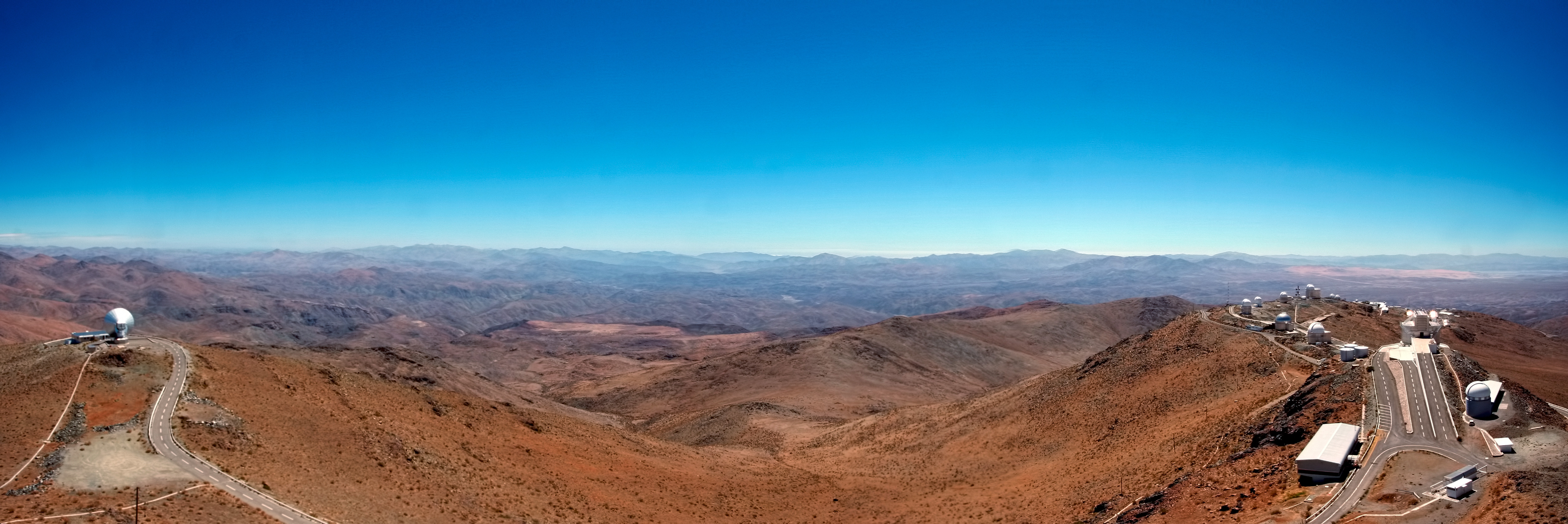 This panoramic image, taken by ESO Photo Ambassador Alexandre Santerne reveals a somewhat Martian-looking landscape. This dry, red scene could well be taken to be on another world, but is actually the site of the La Silla Observatory, 2400 metres above sea level, on the outskirts of the southern part of the Atacama Desert in Chile — and ESO’s first observing site. With more than 300 clear nights per year, low atmospheric turbulence and dry conditions, La Silla offers some of the very best conditions for ground-based observational astronomy. For many years it was one of the most scientifically productive observatories in the world, and today still makes a significant contribution each year. The main platform at La Silla, to the right in this image, hosts a huge range of telescopes with which astronomers can explore the Universe. The most striking is the ESO 3.58-metre New Technology Telescope (NTT) with its octagonal enclosure — the first in the world to have a computer-controlled deformable main mirror — a system known as active optics — and paving the way for modern large telescopes including ESO's Very Large Telescope (VLT) at Paranal. The site is also used by ESO Member States for targeted projects using a vast range of instruments scattered across the site, including the MPG/ESO 2.2-metre, the Danish 1.54-metre and TAROT telescopes. To the left is the Swedish-ESO Submillimetre Telescope (SEST) — a 15-metre radio telescope built in 1987, then the only large telescope for submillimetre astronomy in the southern hemisphere. It was decommissioned in 2003 to make way for the Atacama Large Millimeter/submillimeter Array (ALMA) to further explore our cold Universe.